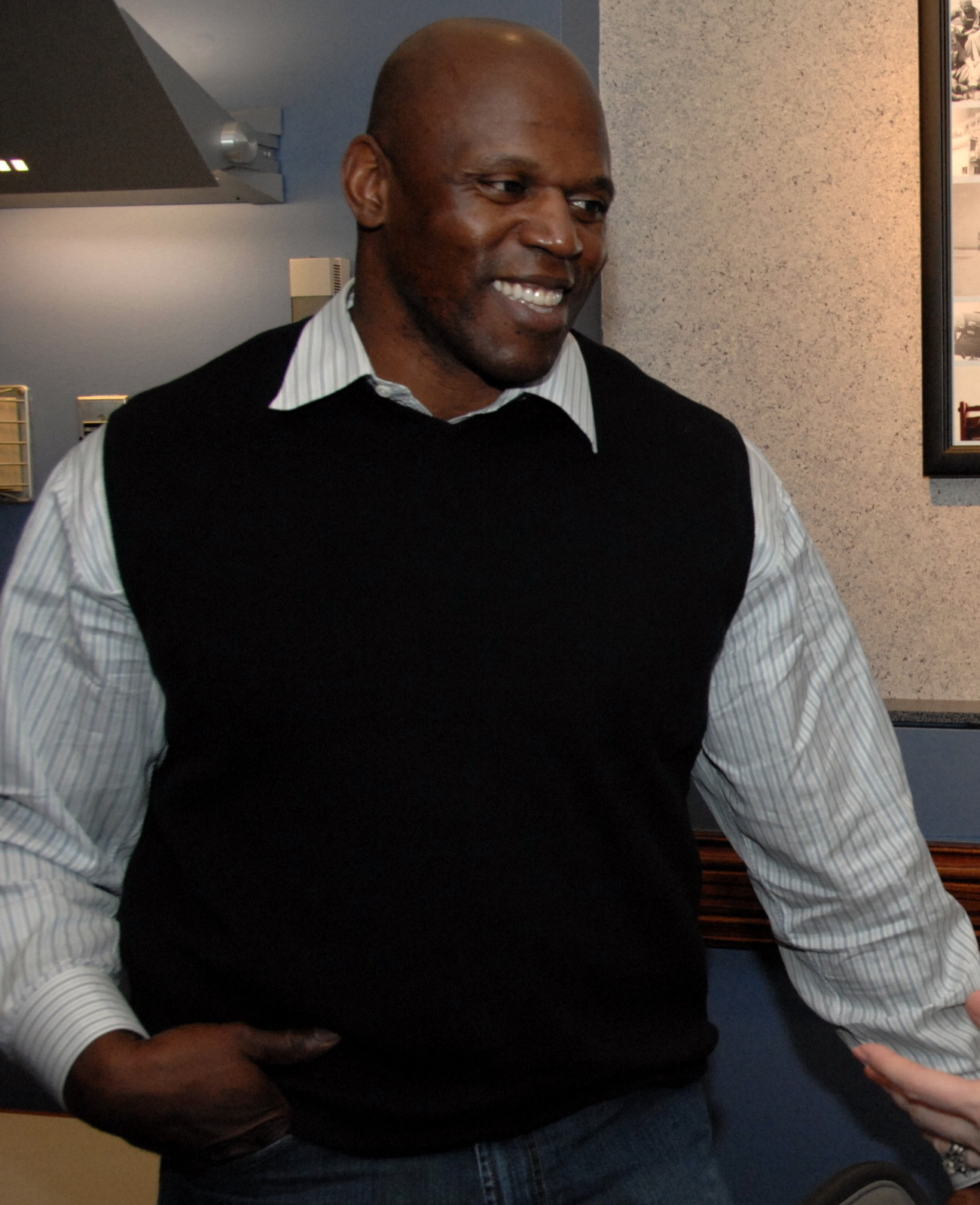 Former NFL player Ken Harvey (left), of the Washington Redskins and Arizona Cardinals, chats with Air Force Col. Monique Minnick at Joint Base Anacostia-Bolling. Harvey; Eric Hipple, Detroit Lions Quarterback; Ricky Ervins, San Francisco 49ers Running Back; and Mark Washington, Dallas Cowboys and New England Patriots Cornerback, mingled with sailors, airmen, soldiers, Coast Guardsmen and Marines at JBAB in Washington while watching the Seattle Seahawks and Chicago Bears NFL playoff game. During halftime, the players told the crowd that NFL players experience stress and depression at times during their careers, as well as while transitioning from the NFL to a post-NFL lifestyle.